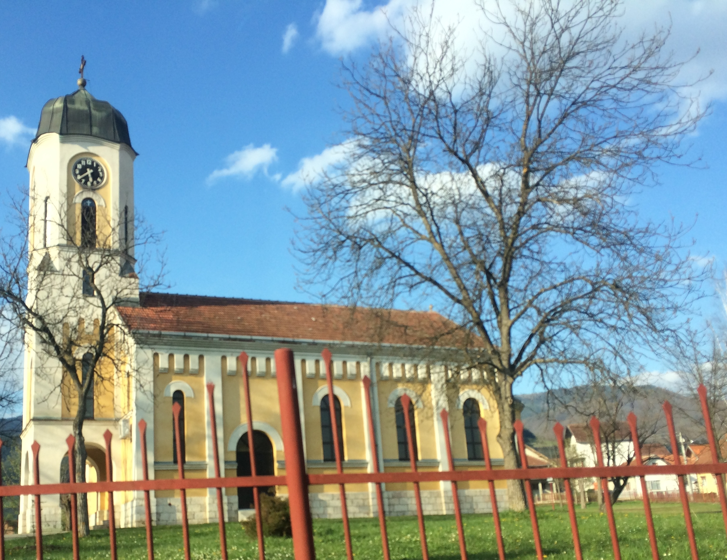 Image from the border city of Rudo, center of Rudo municipality in southeastern Bosnia-Hercegovina. The city has both a mosque and an orthodox church, and a bridge across the Lim spanning from Serbia into Bosnia at Rudo.